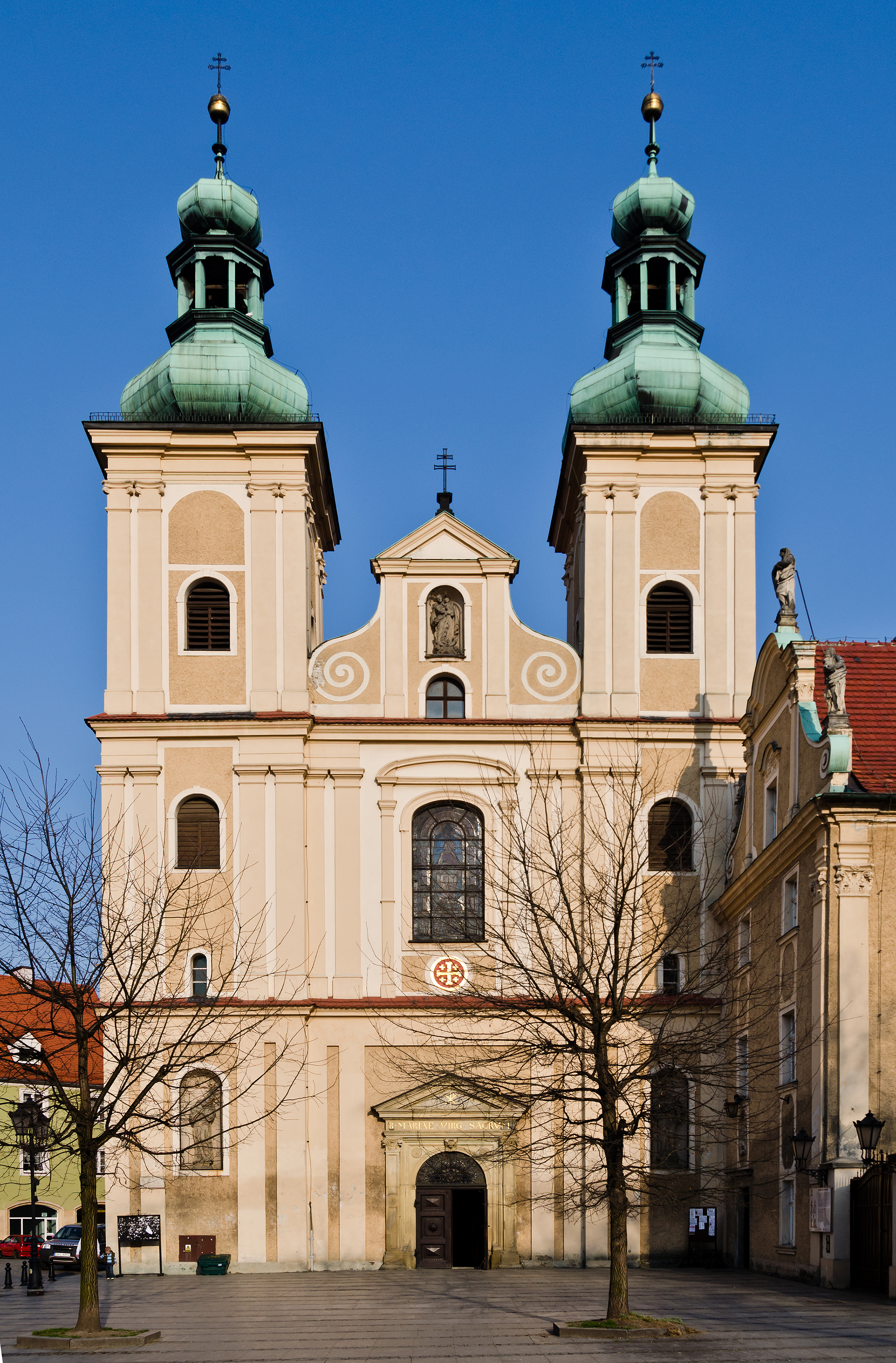 Our Lady of the Rosary church in Kłodzko